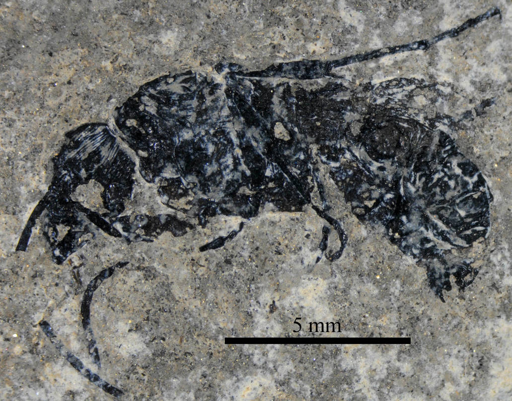 Pseudectatomma striatula holotype, lateral view of reproductive female. Specimen number SMFMEI5762